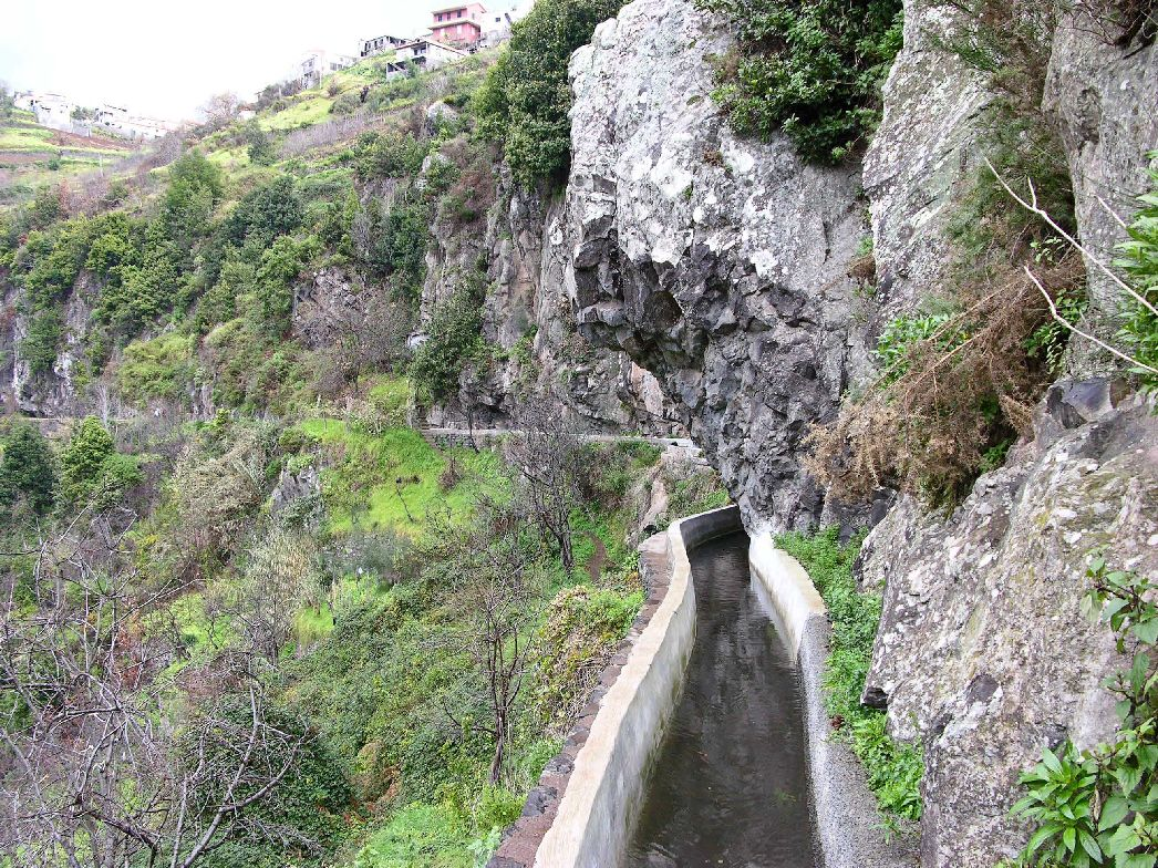 Levada, somewhere (?) in Madeira